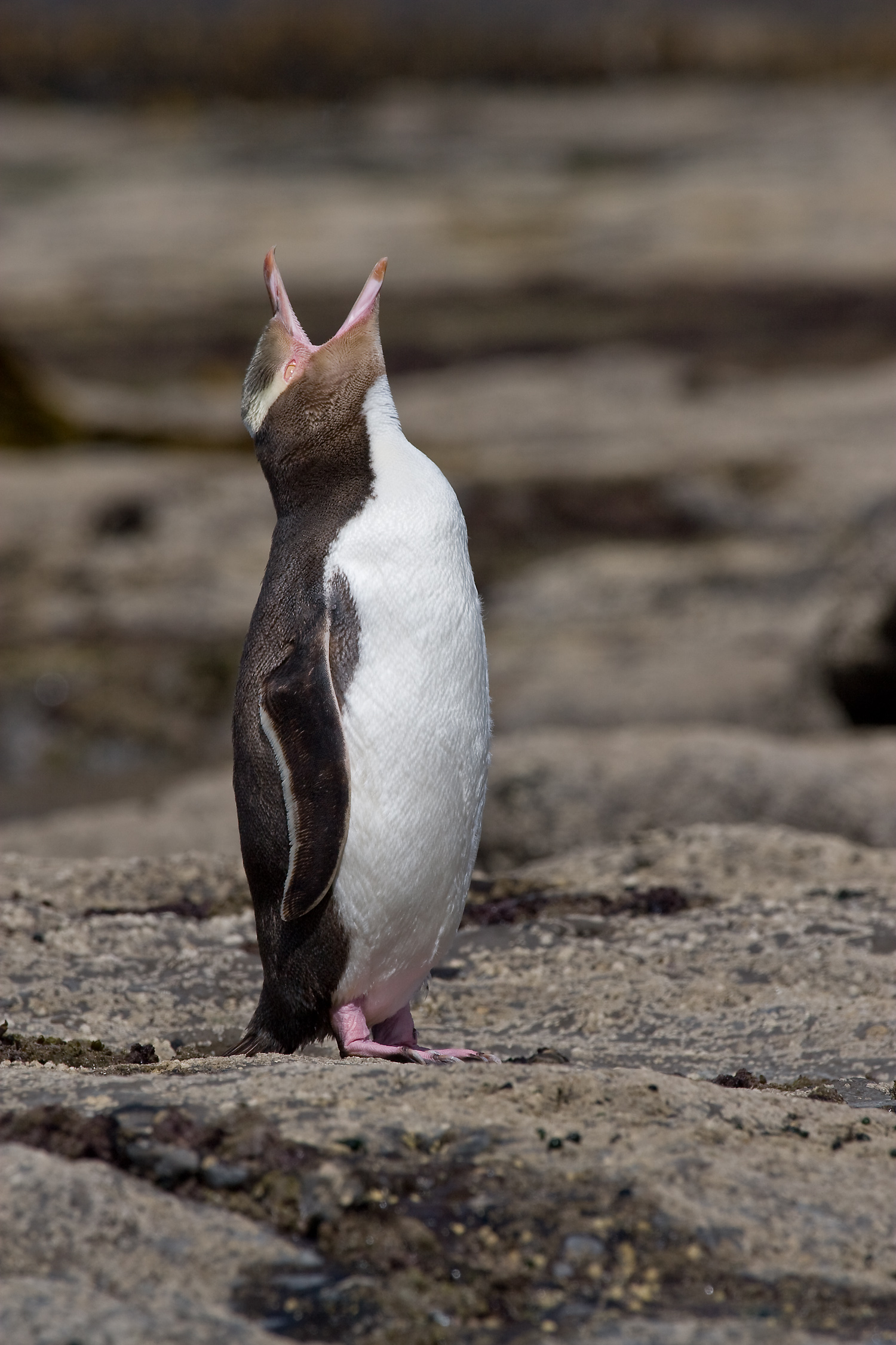 A Yellow-eyed Penguin (Megadyptes antipodes) in the Curio Bay, New Zealand.